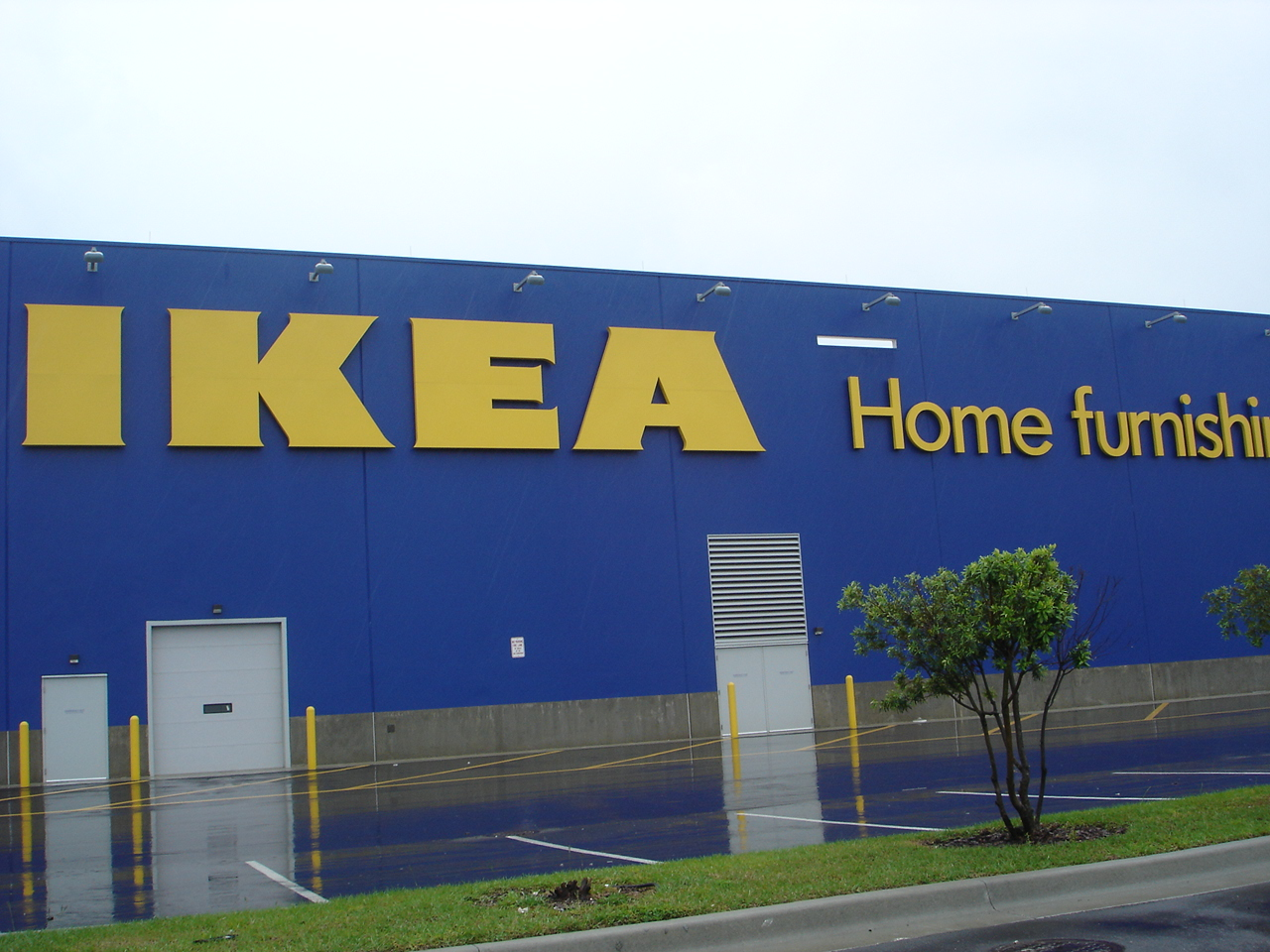 IKEA Home furnishing store, Tampa, Florida, USA